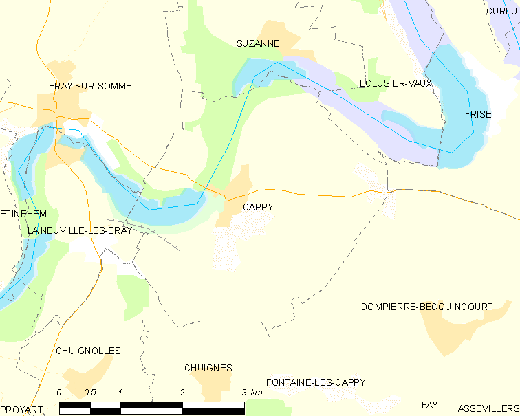 Map of French municipality Cappy